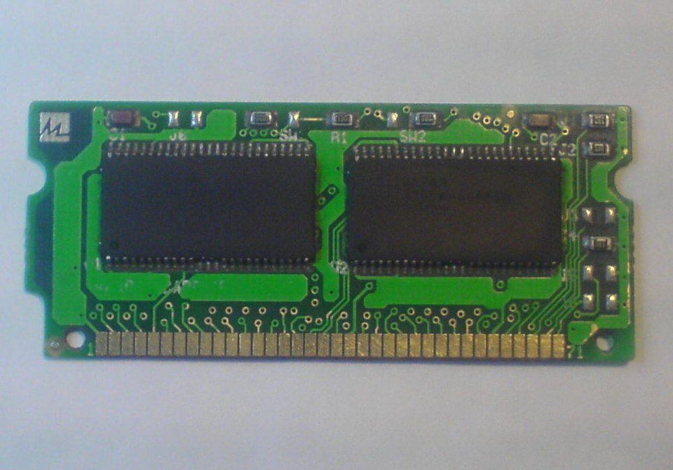 DRAM 72-pin SO-DIMM package